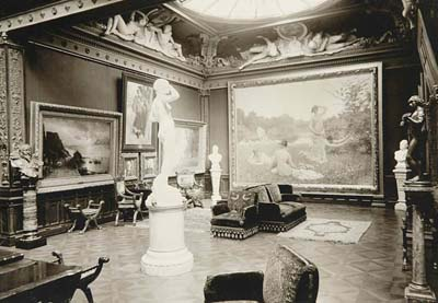 Original interior from the Fürstenberg gallery